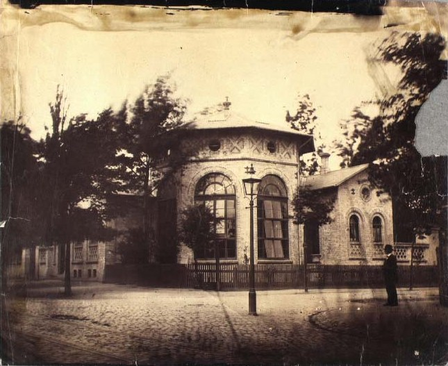 Villa at Vesterbrogade 150 (corner of Platanvej), commissioned by the economist P.T.J. Benzon-Buchwald and built 1874 by architect Theodor Stuckenberg. Demolished 1959.